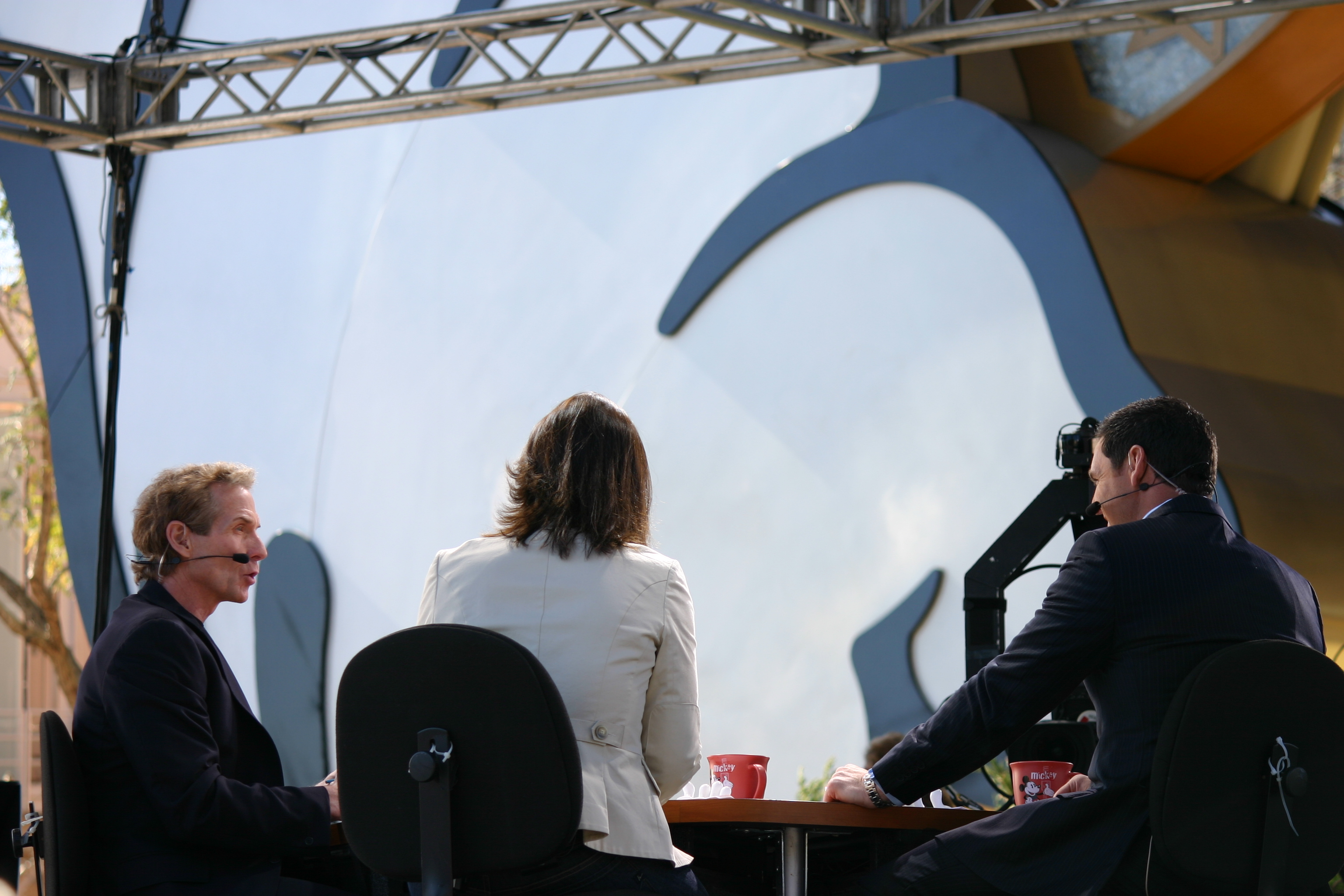 Skip Bayless, Dana Jacobson and Jay Feely broadcasting First Take on ESPN at ESPN The Weekend, February 26, 2010